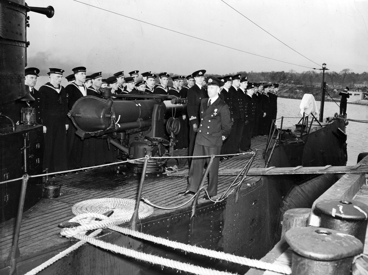 S-1-class submarine ORP Jastrząb - formerly American S-25 - with the Polish crew